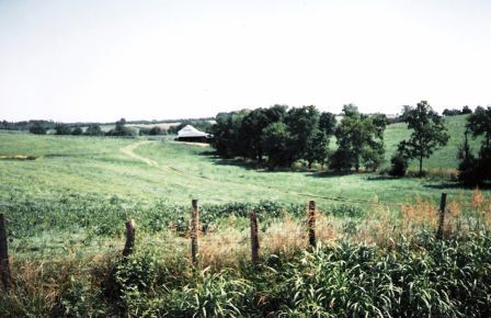 Extreme Left of the Confederate Position